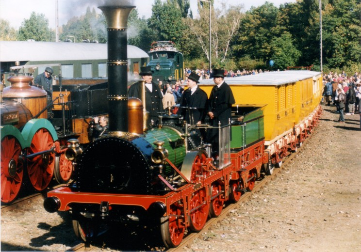 Locomotive Adler (reproduction of 1935) in Nürnberg, Germany at the exhibition 100 years DB-Museum